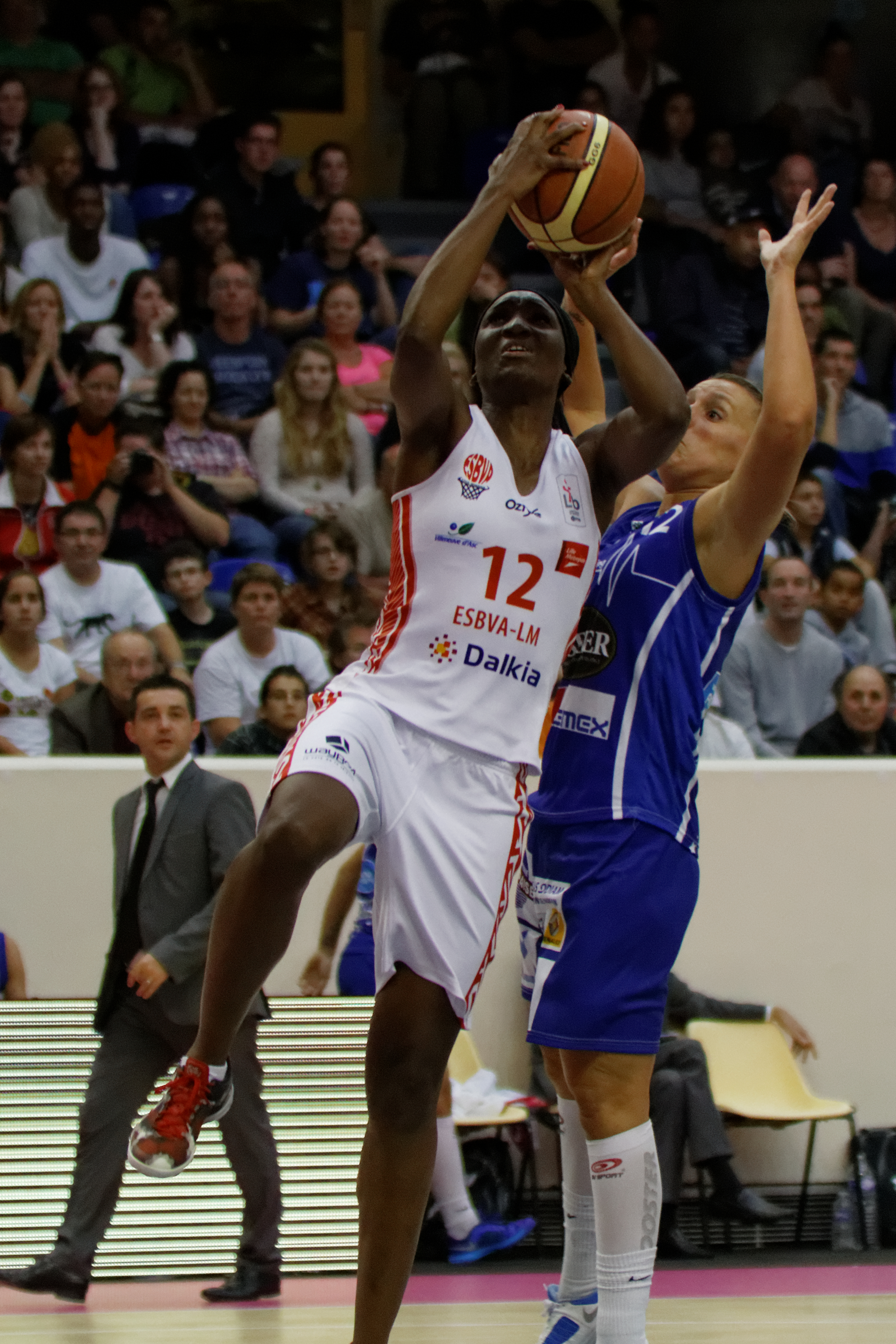 Open LFB, Villeneuve d'Ascq-Basket Landes, October 5th, 2013.